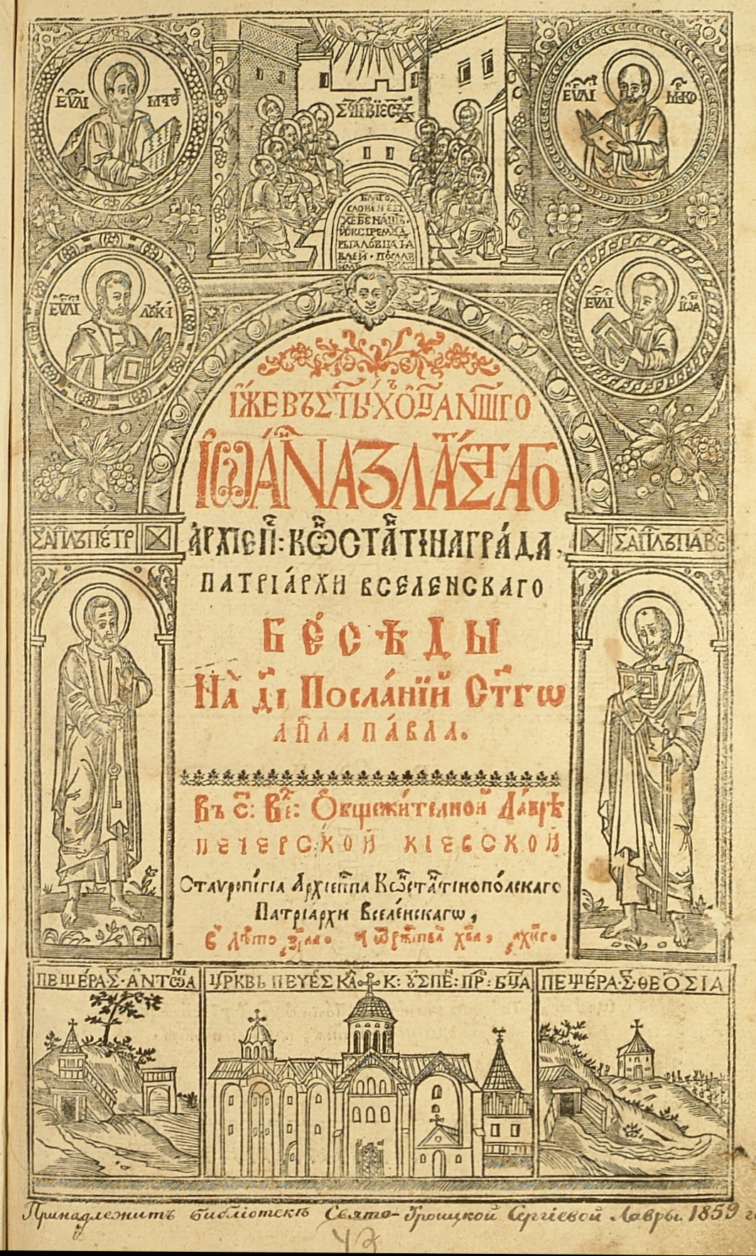 "The Homilies of S. John Chrysostom Archbishop of Constantinople, on the 14 epistles of St. Paul the Apostle", Kiev, 1623.